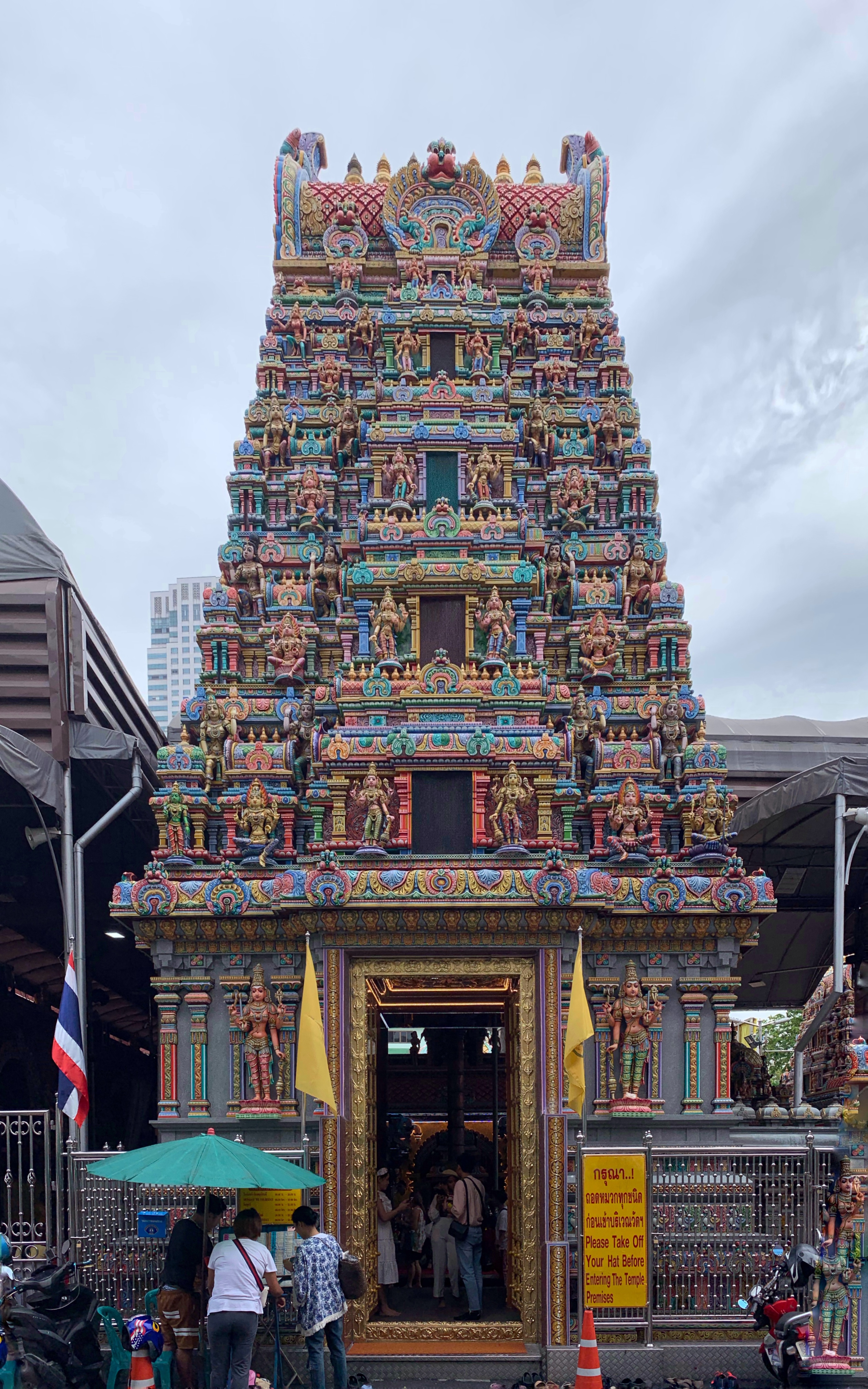 Sri Mahamariamman Temple Bangkok (Wat Khaek Silom)